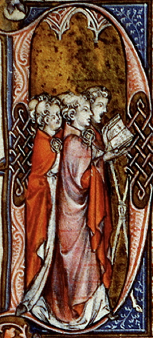 A part of the initial “D” from the Montpellier Codex, H. 196, folio 350, probably representing a singers from Notre Dame School.